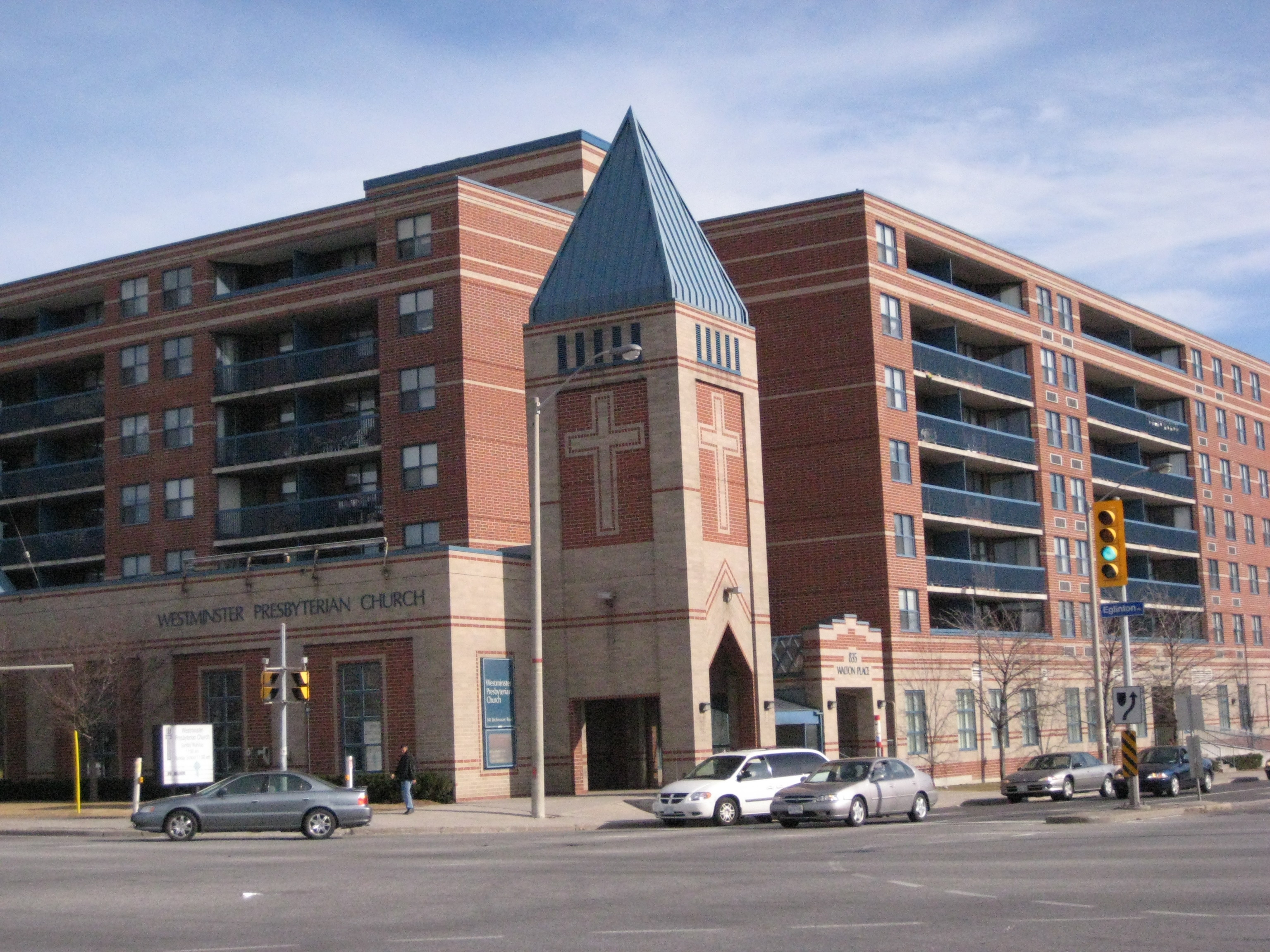 Westminster Presbyterian, Scarborough